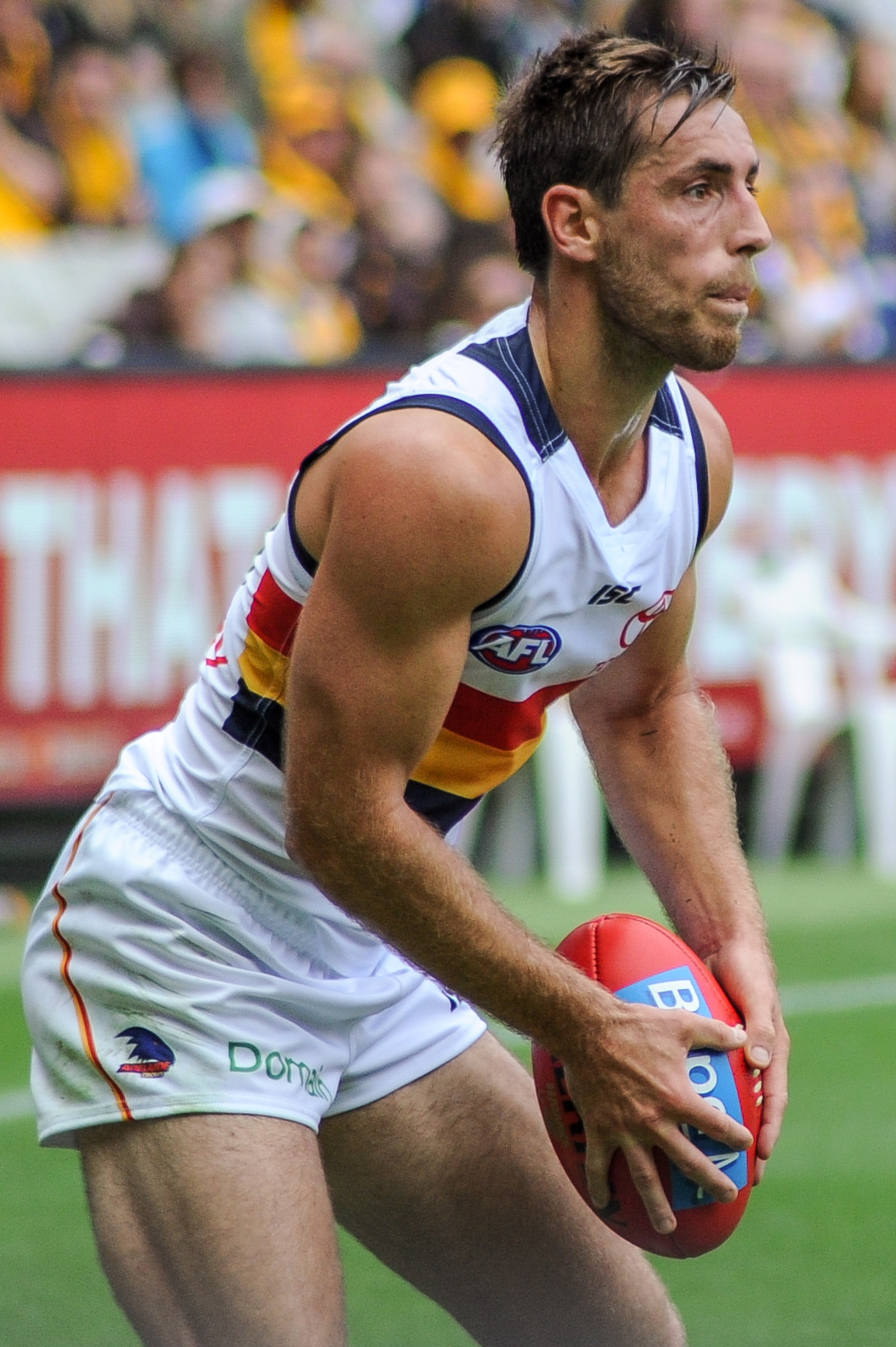 Richard Douglas during the AFL round two match between Hawthorn and Adelaide on 1 April 2017 at the Melbourne Cricket Ground in Melbourne, Victoria.